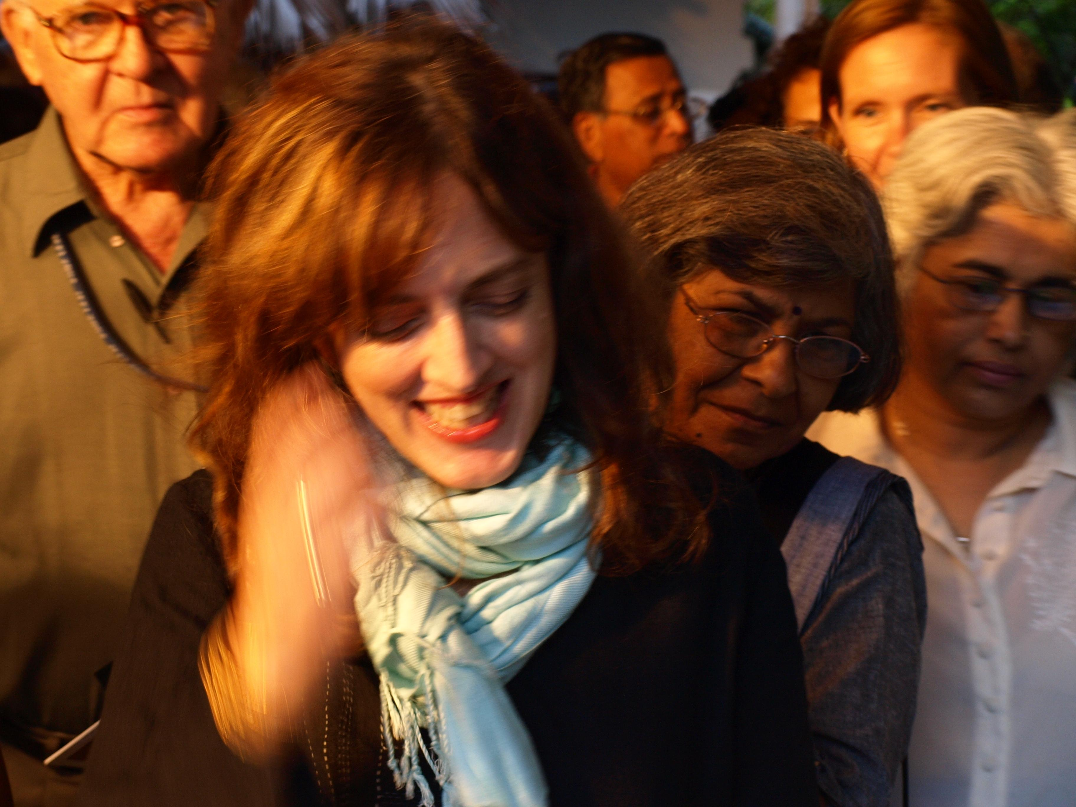 Margaret Mascarenhas, author of the novel 'Skin', etc 1